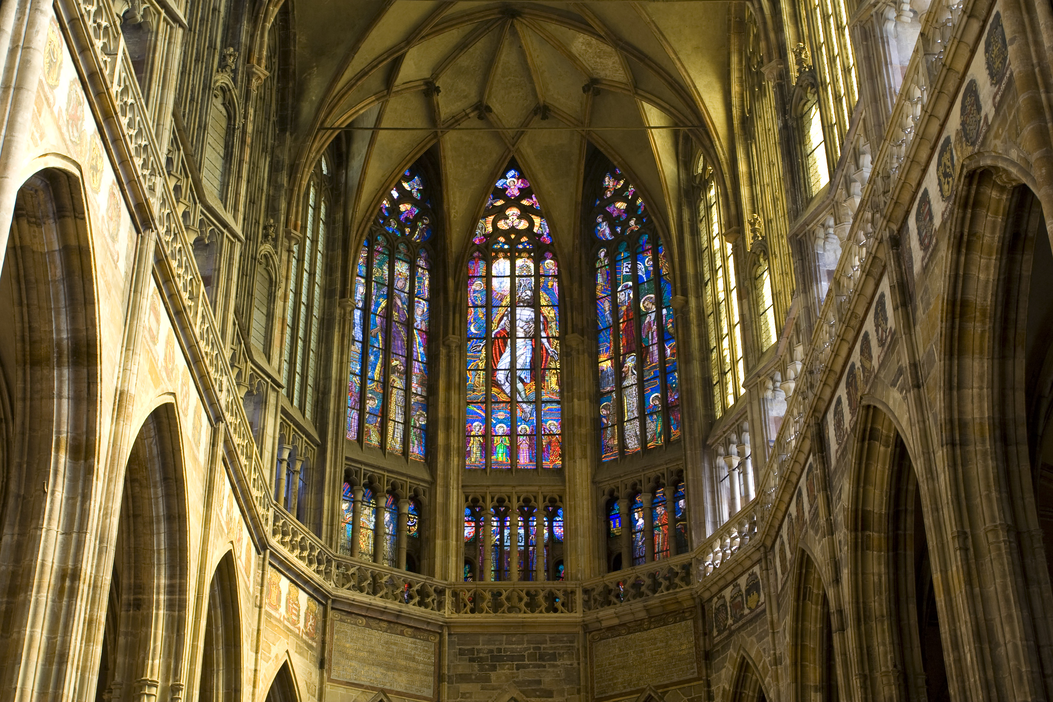 A view of the interior of St. Vitus Cathedral in Prague, Czech Republic.